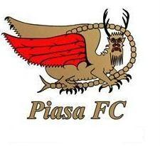 Man Eating bird